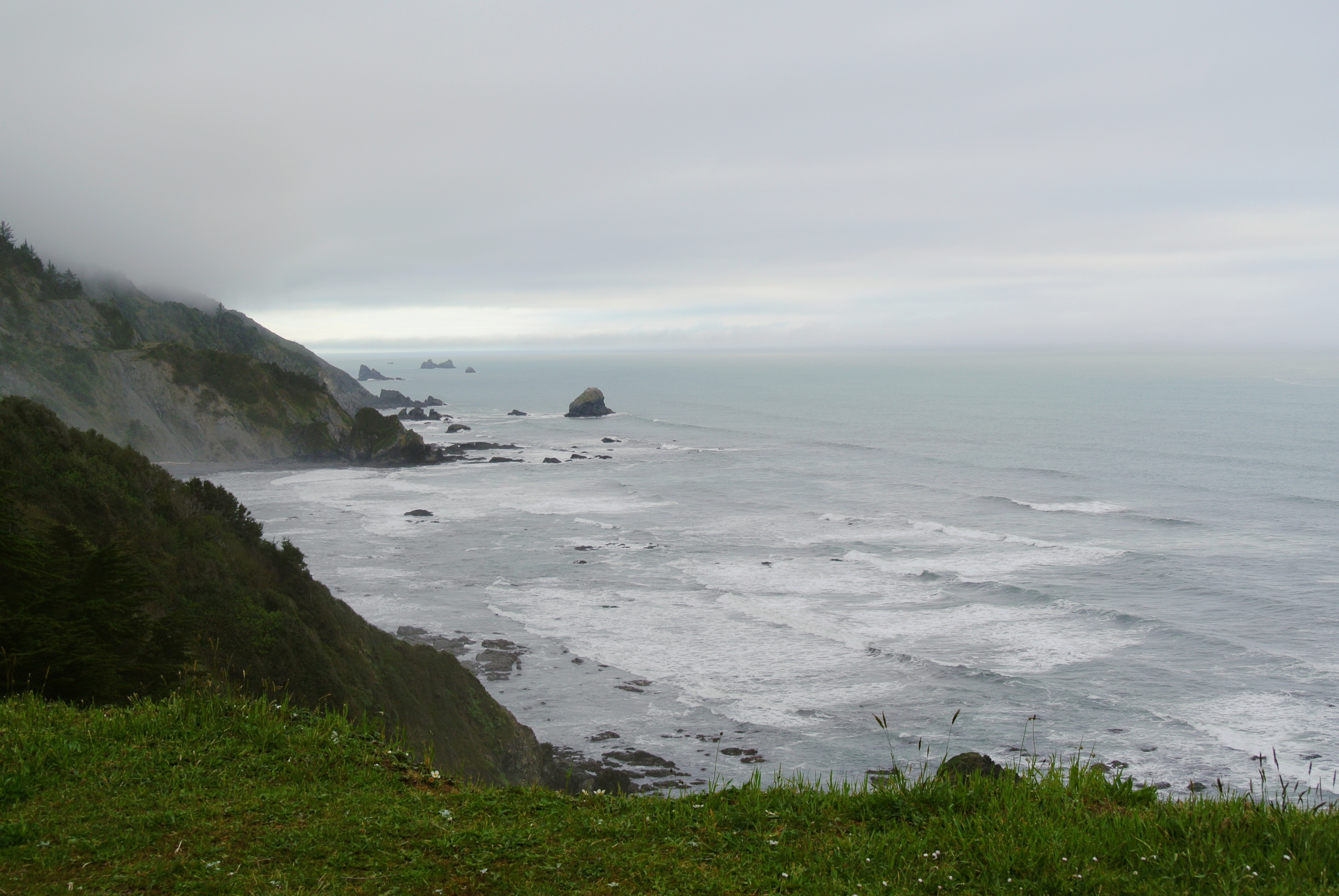 Crescent Beach Overlook, Enderts Beach Road, Redwood National Park, south of Crescent City (Requa?)